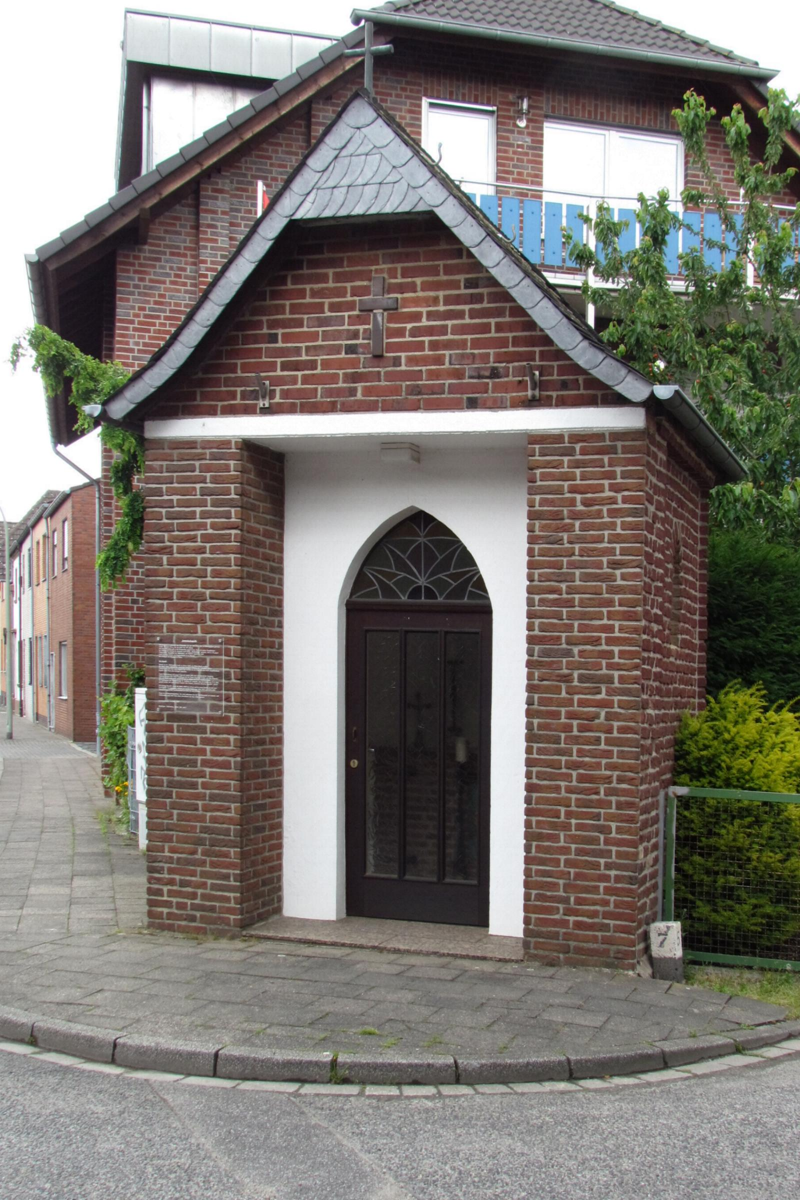 This is a photograph of an architectural monument.It is on the list of cultural monuments of Korschenbroich